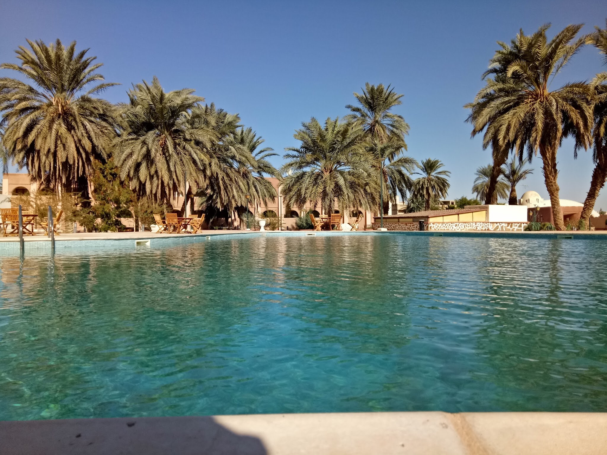 Ouargla